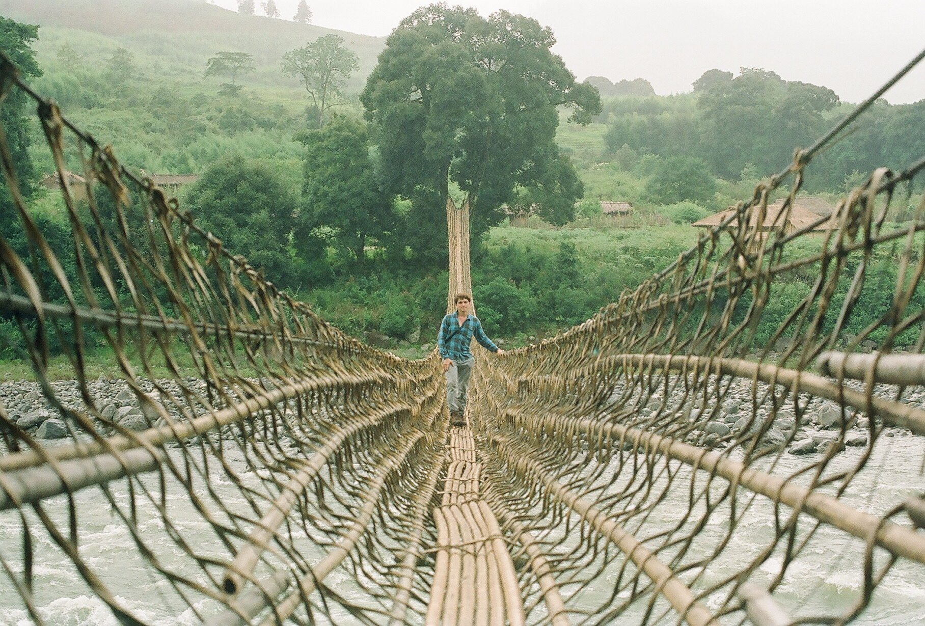 Upper Dibang Valley District, Arunachal Pradesh, India July 1987